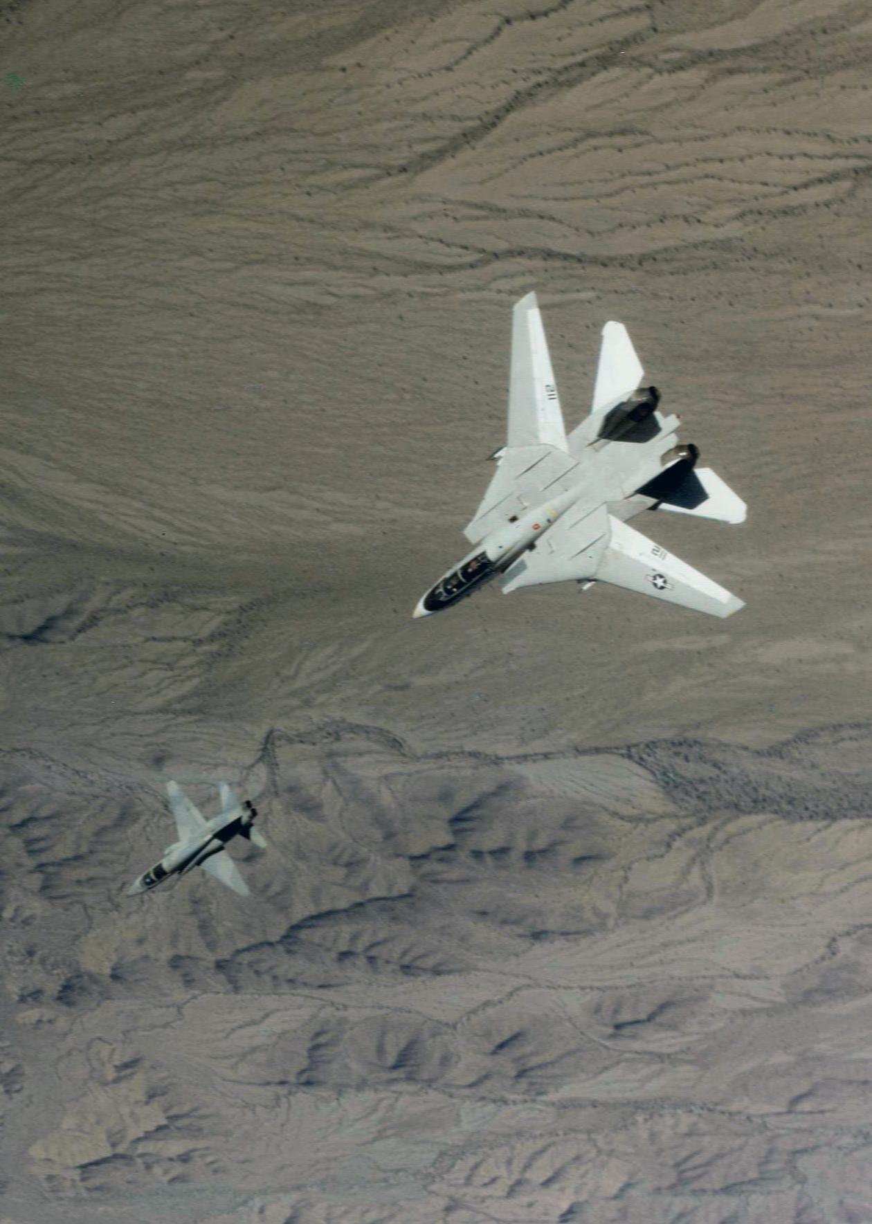 A U.S. Navy Grumman F-14A Tomcat of Fighter Squadron VF-143 "Pukin´ Dogs" chases a Northrop T-38A Talon of Fighter Squadron VF-43 "Challengers" during air combat maneuvering.